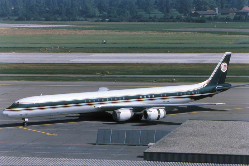 Adnan Khashoggi private jet, a Douglas DC-8